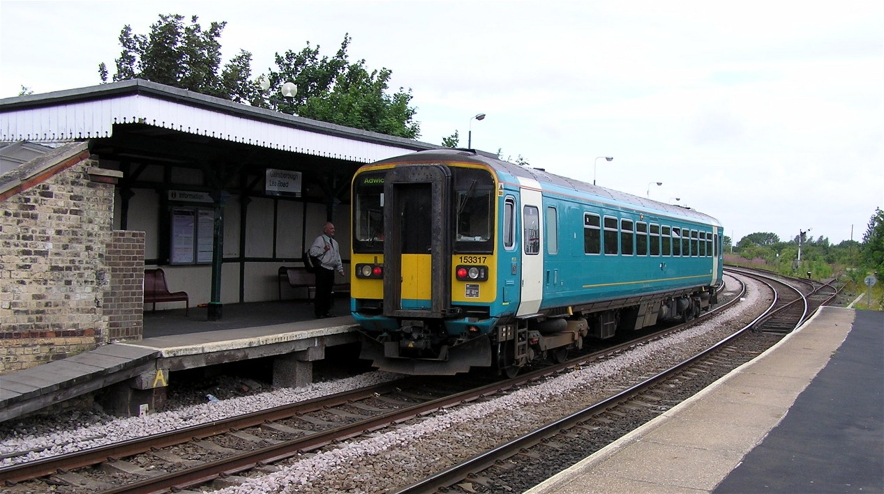 train at the west platform of Gainsborough Lea Road Station